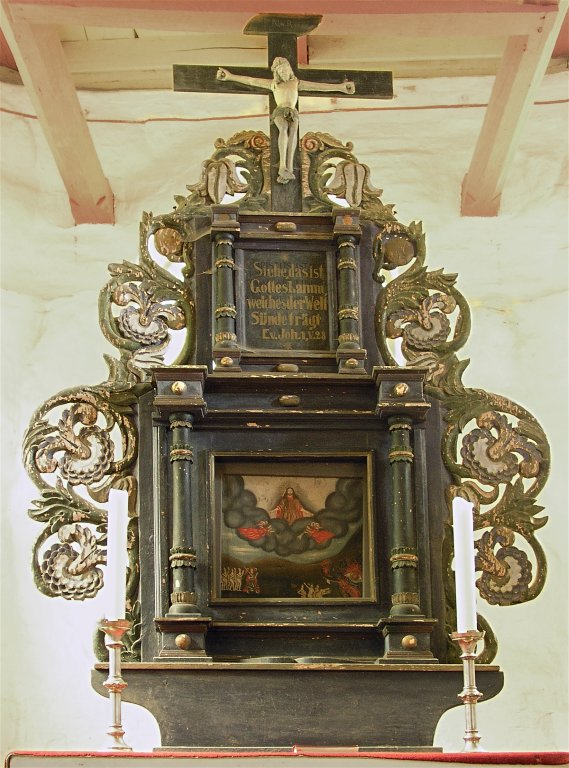 Church of Goldenstädt, the altar, Mecklenburg-Western Pomerania, Germany